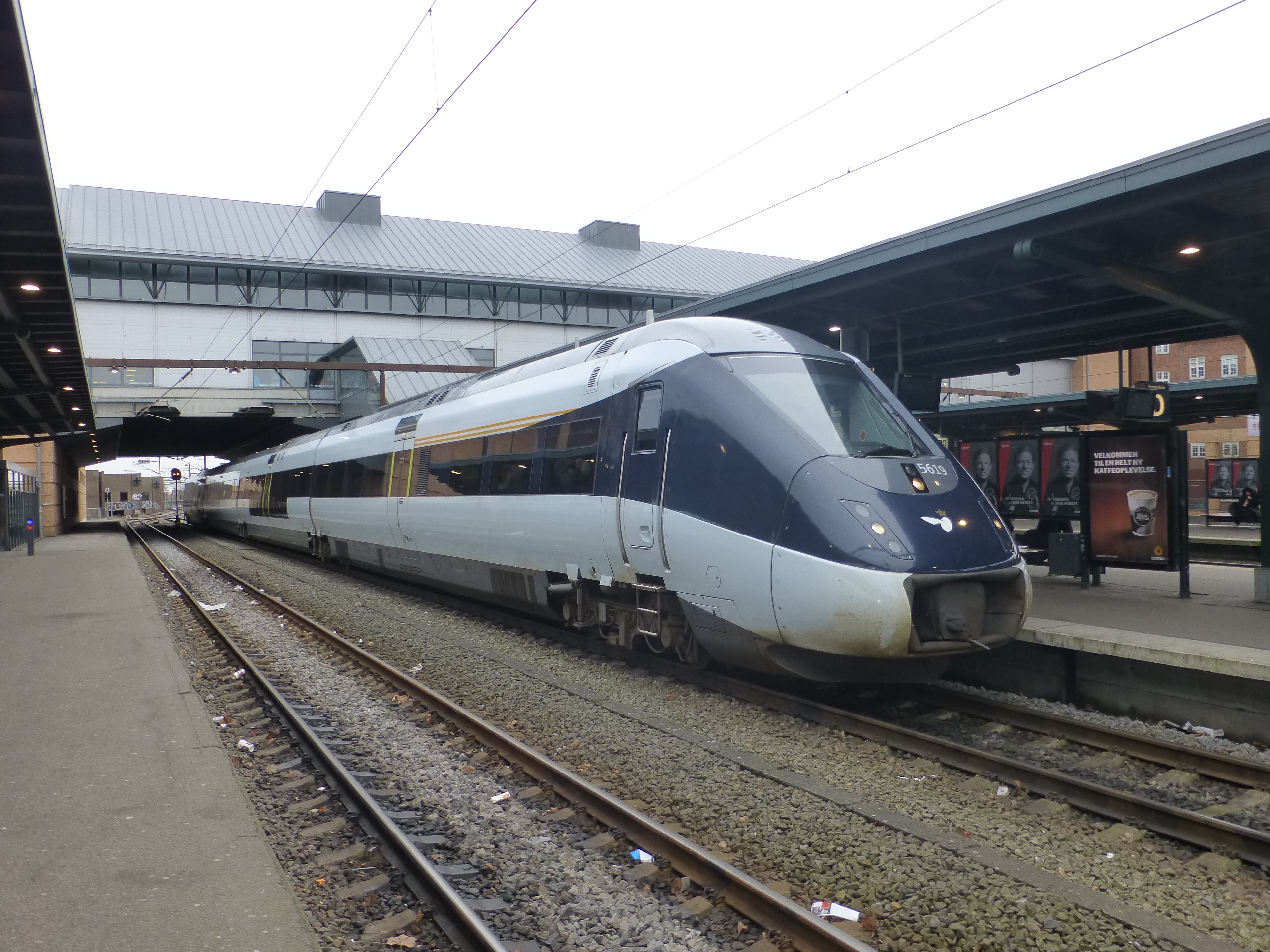 Diesel multiple unit IC4 19 in Odense in Denmark.